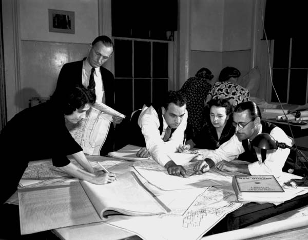 New Orleans, December 1941: After the U.S.A.'s sudden entry into World War II following the Japanese attack on Pearl Harbor, WPA workers assemble an Air Raid Warning Map for the city. Original caption: Working against time, these WPA researchers and map makers in the city planning and zoning commission are preparing New Orleans' air raid warning map. The basic material used in preparing the map is the real property survey of the city, compiled by WPA workers two years ago, as well as zoning, traffic and delinquent tax surveys previously made by other WPA projects.